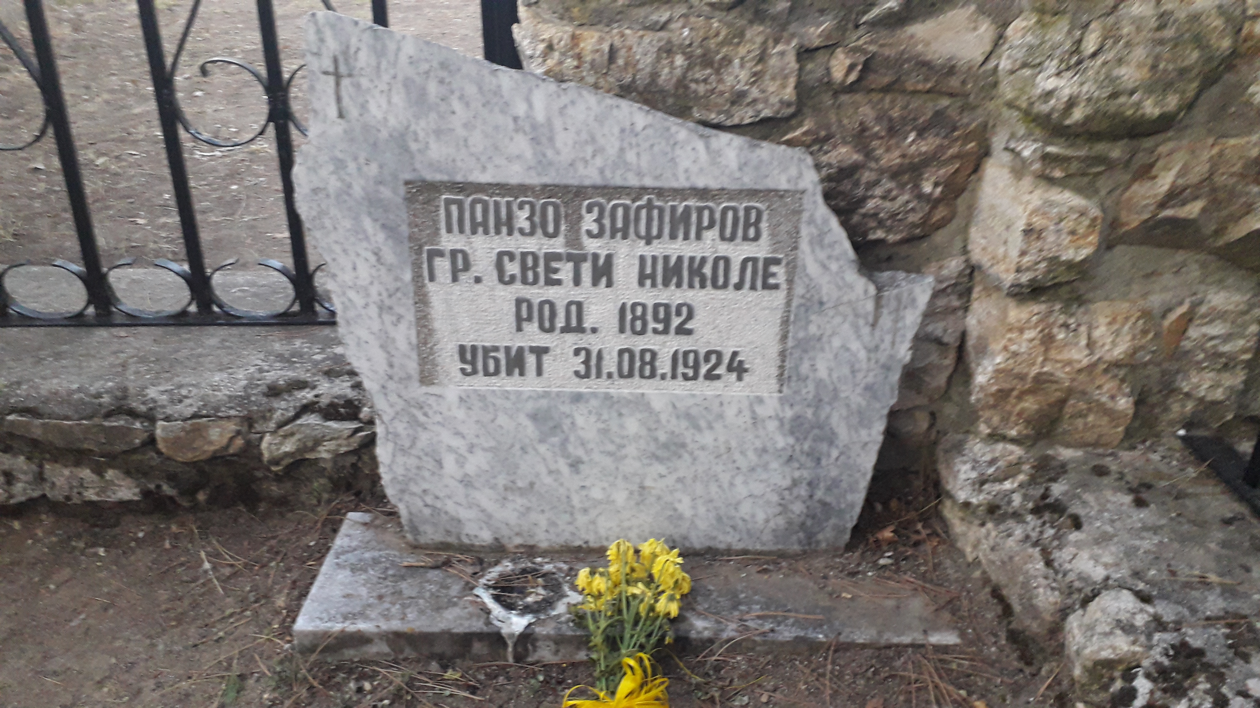 Panzo Zafirov grave